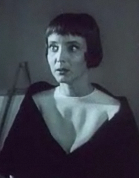 Screenshot of Carolyn Jones from the trailer for the film The Man in the Net.